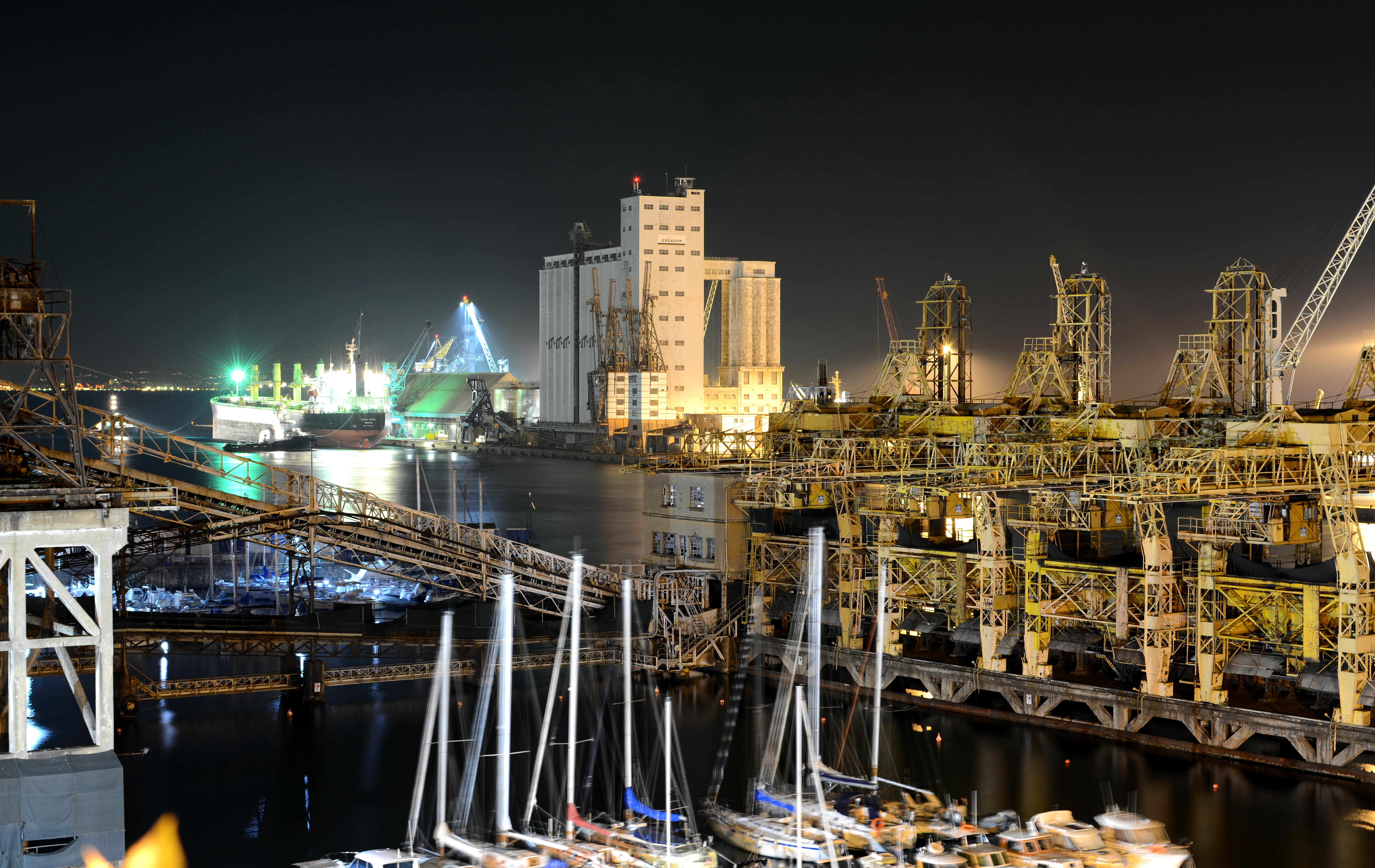 The old Miramar bulk terminals of Savona in the foreground, with their new replacement in the background, where the bulk carrier Ocean Pearl (IMO 9401829, MMSI 311000738) is presumably unloading its cargo